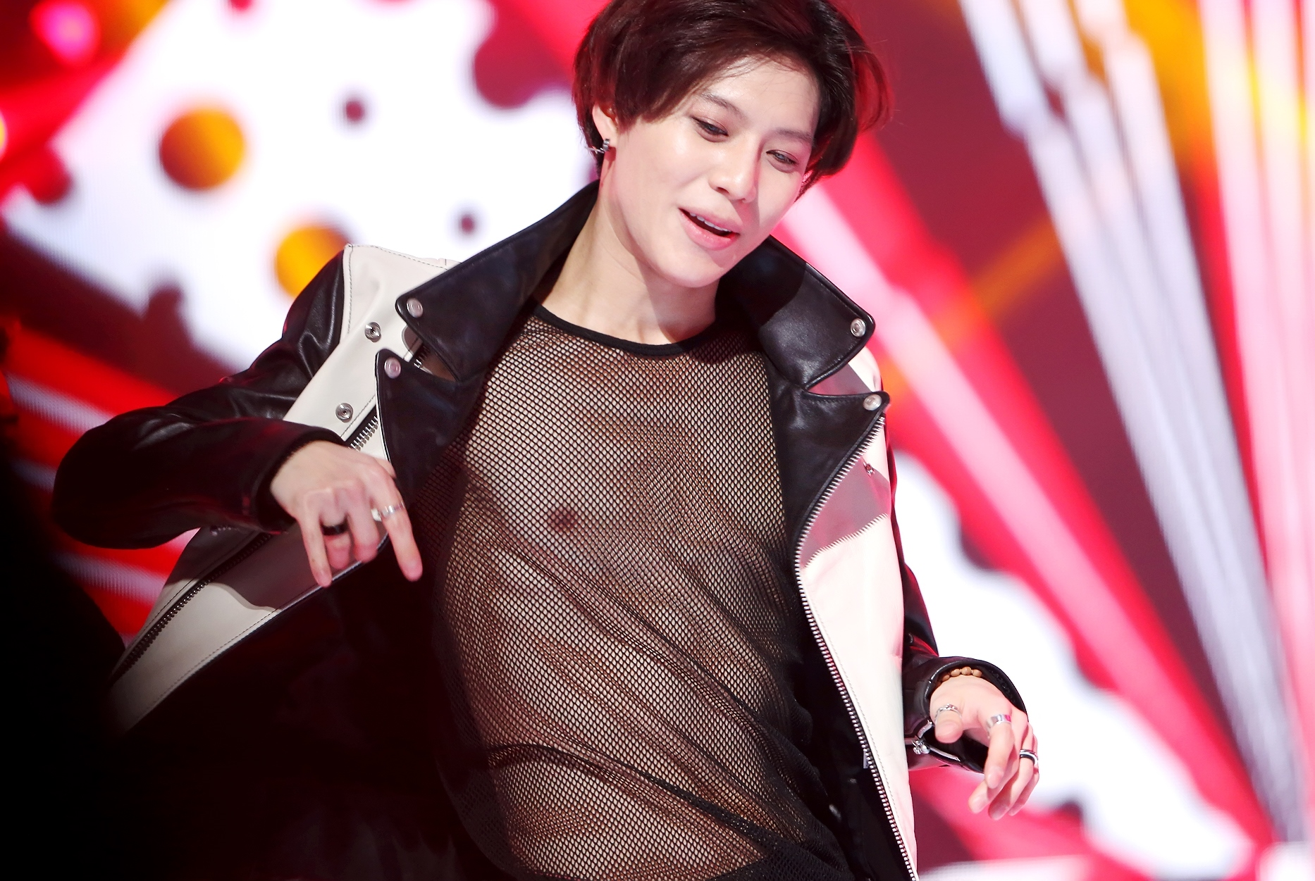 Taemin at the MBC Gayo Daejejeon on December 31, 2014.